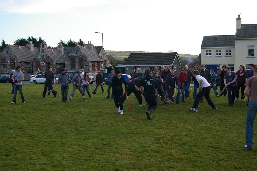 The 2009 Cammag match in St John's, Isle of Man